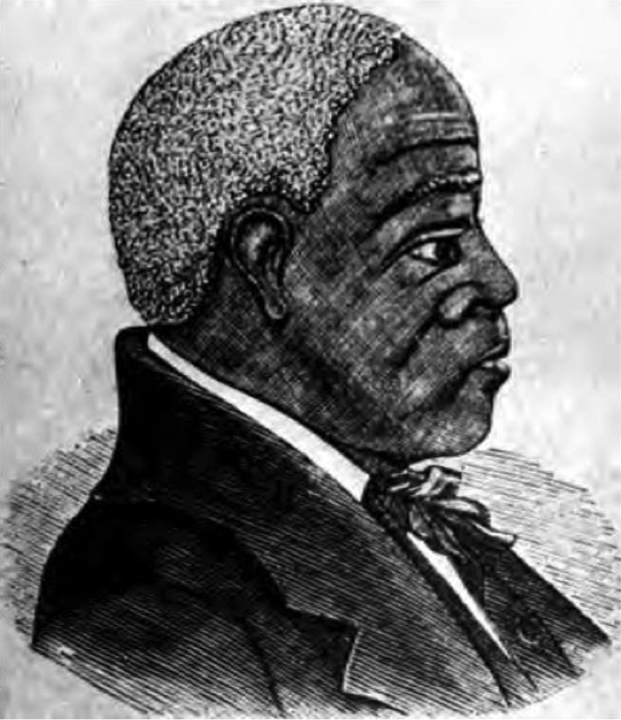 Andrew Bryan (Baptist)